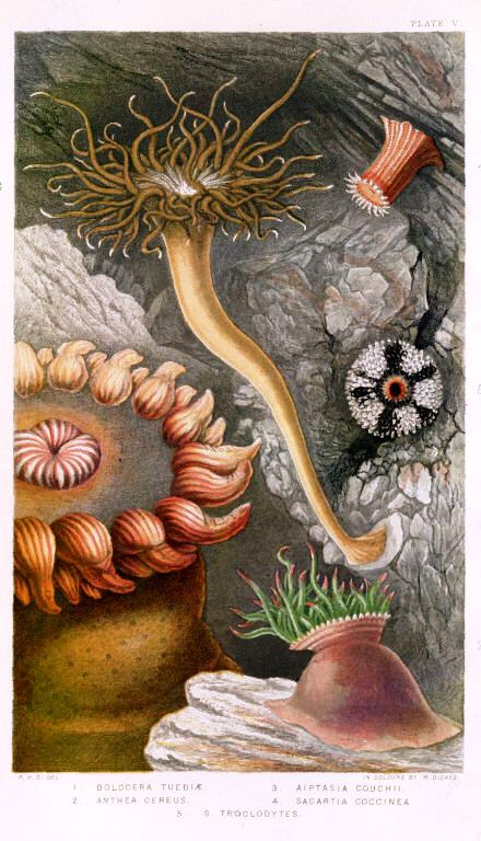 Plate V in "British Sea-Anemone and Corals" by Philip Henry Gosse, Van voorst, Paternoster Row, London, 1860.